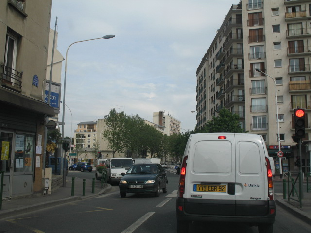 Typical street in Malakoff. (Author: Metropolitan)